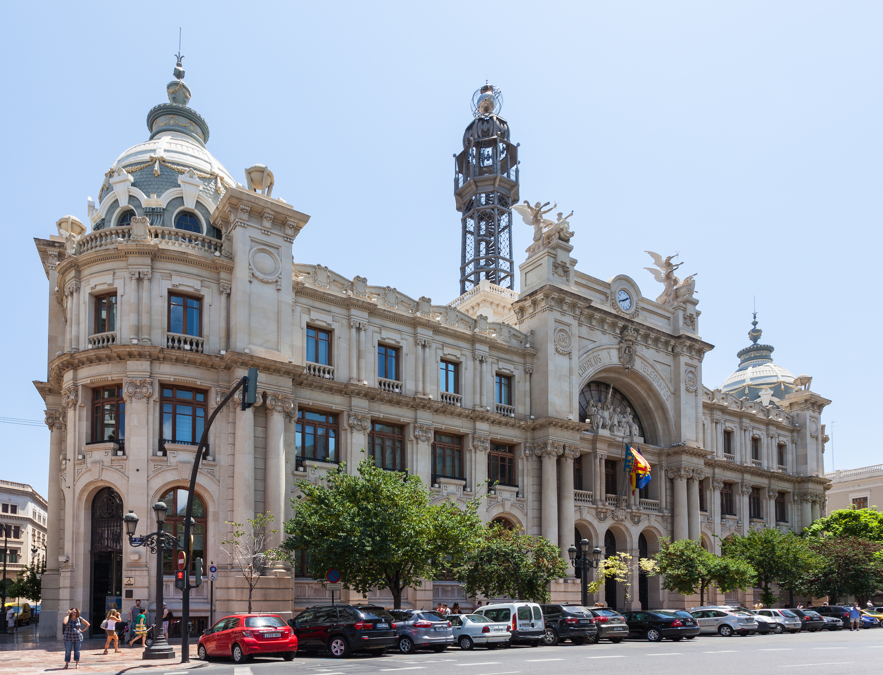 Post office, Valencia, Spain